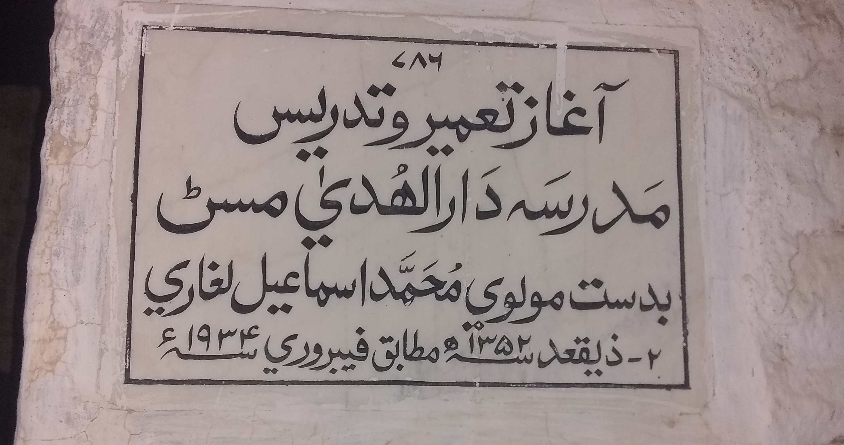 مولوی عبد الکریم